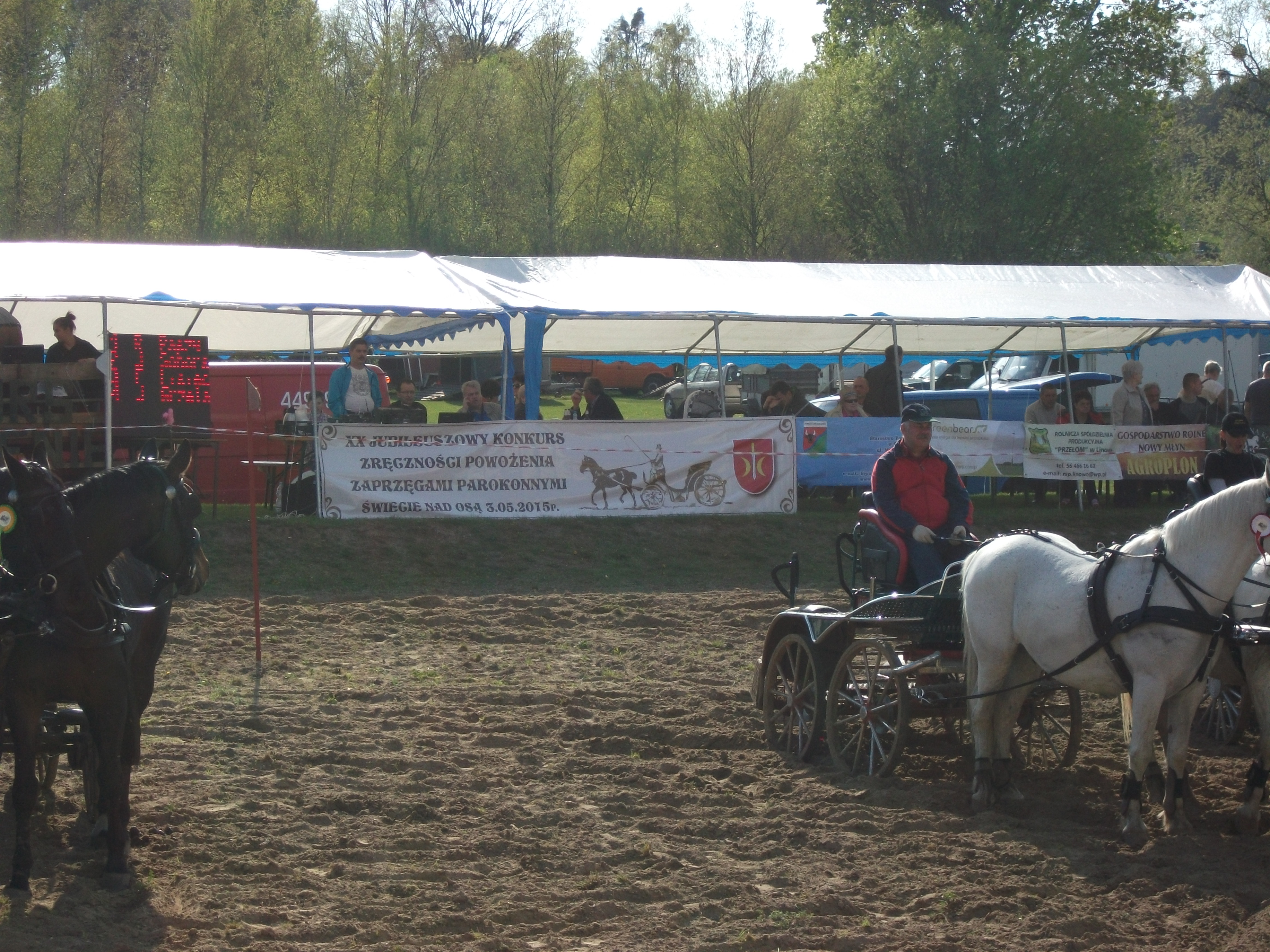 Combined driving turnament, Świecie nad Osą 2015, POLAND